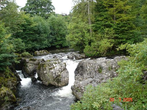 The River Llugwy from Pont-y-pair.